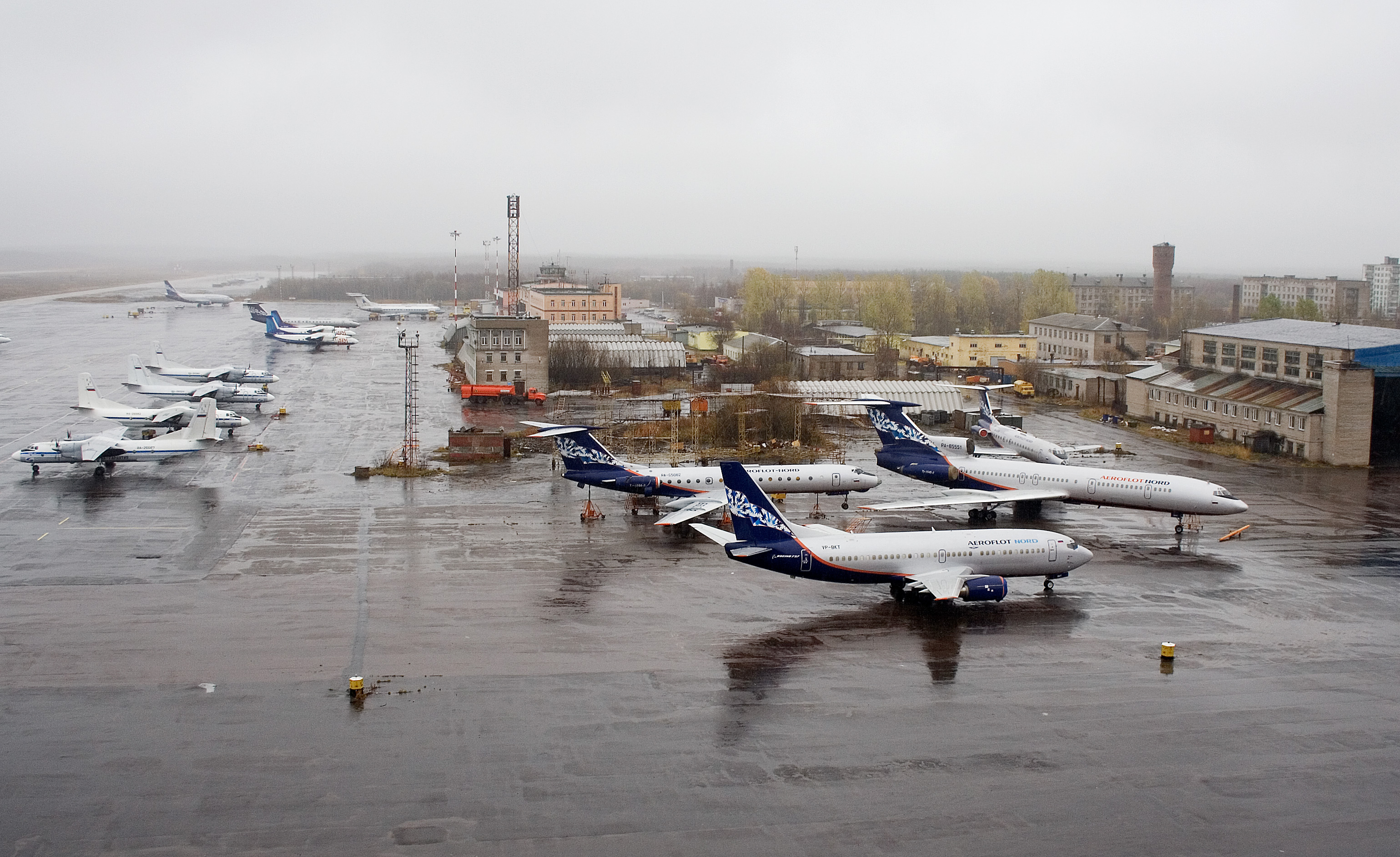 Talagi airport (ULAA)